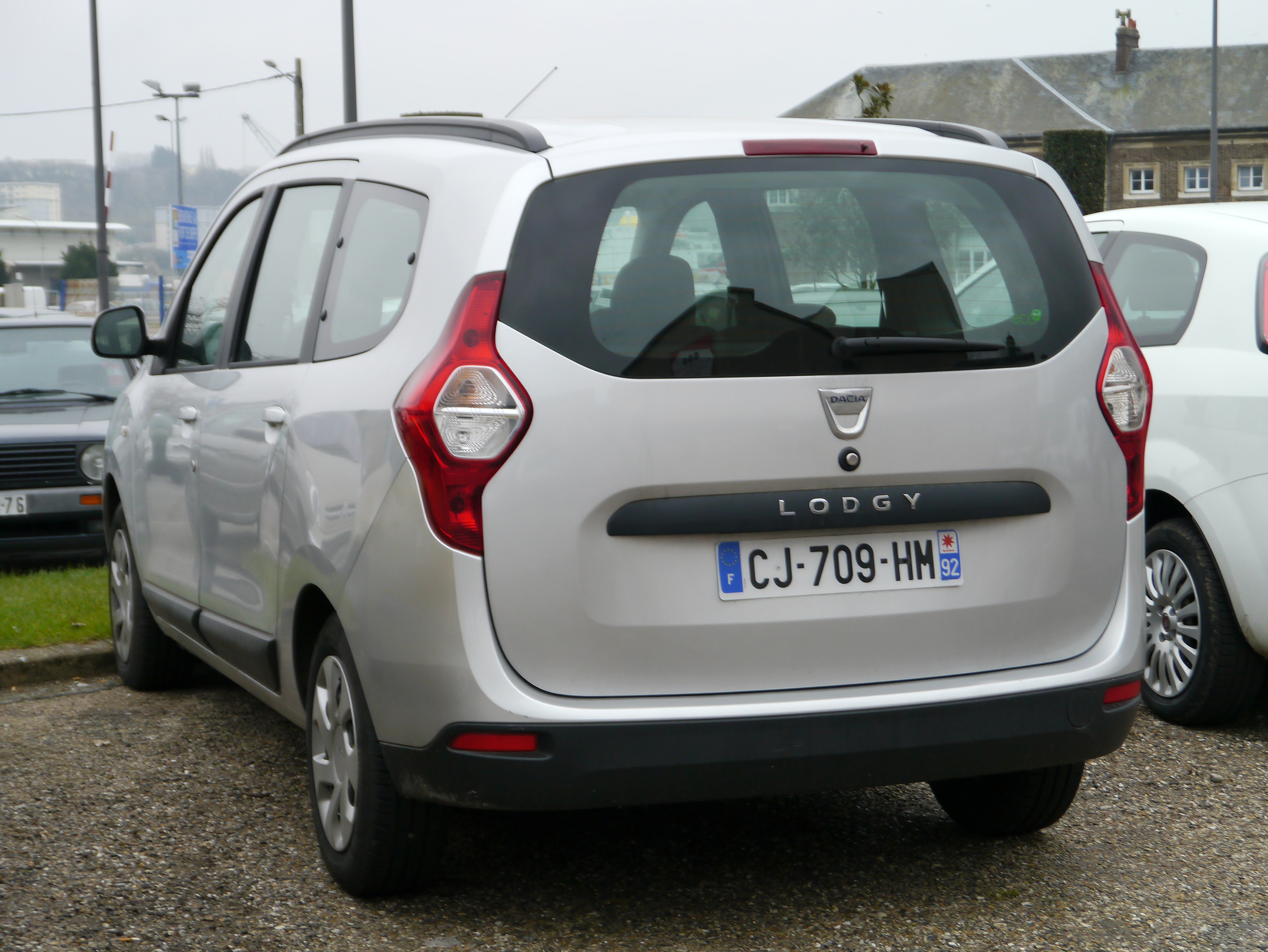 2012 Dacia Lodgy - Dacia's first MPV. Not sure if this model is imported in the UK...